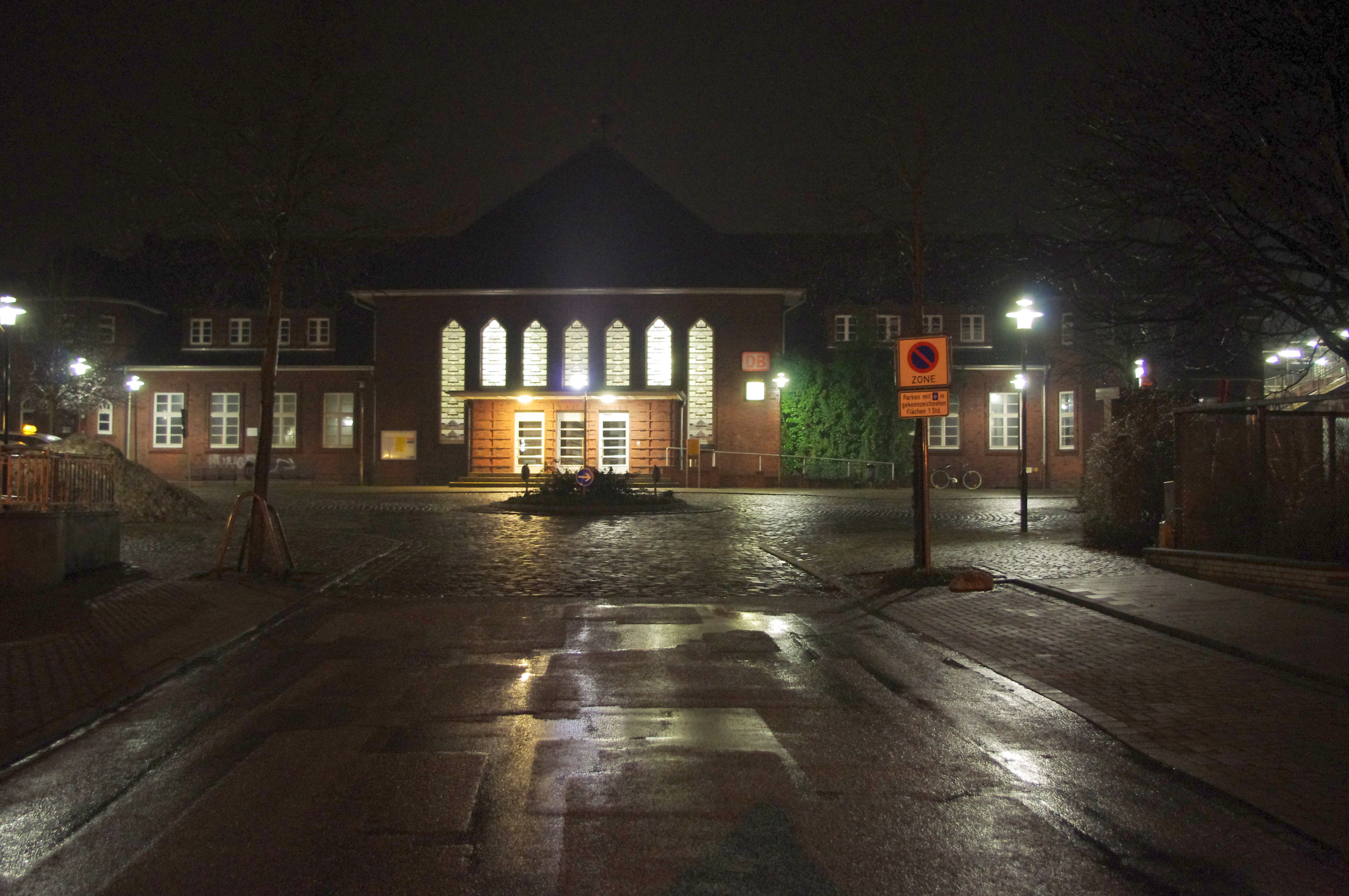 Train station Bramsche by night, Germany